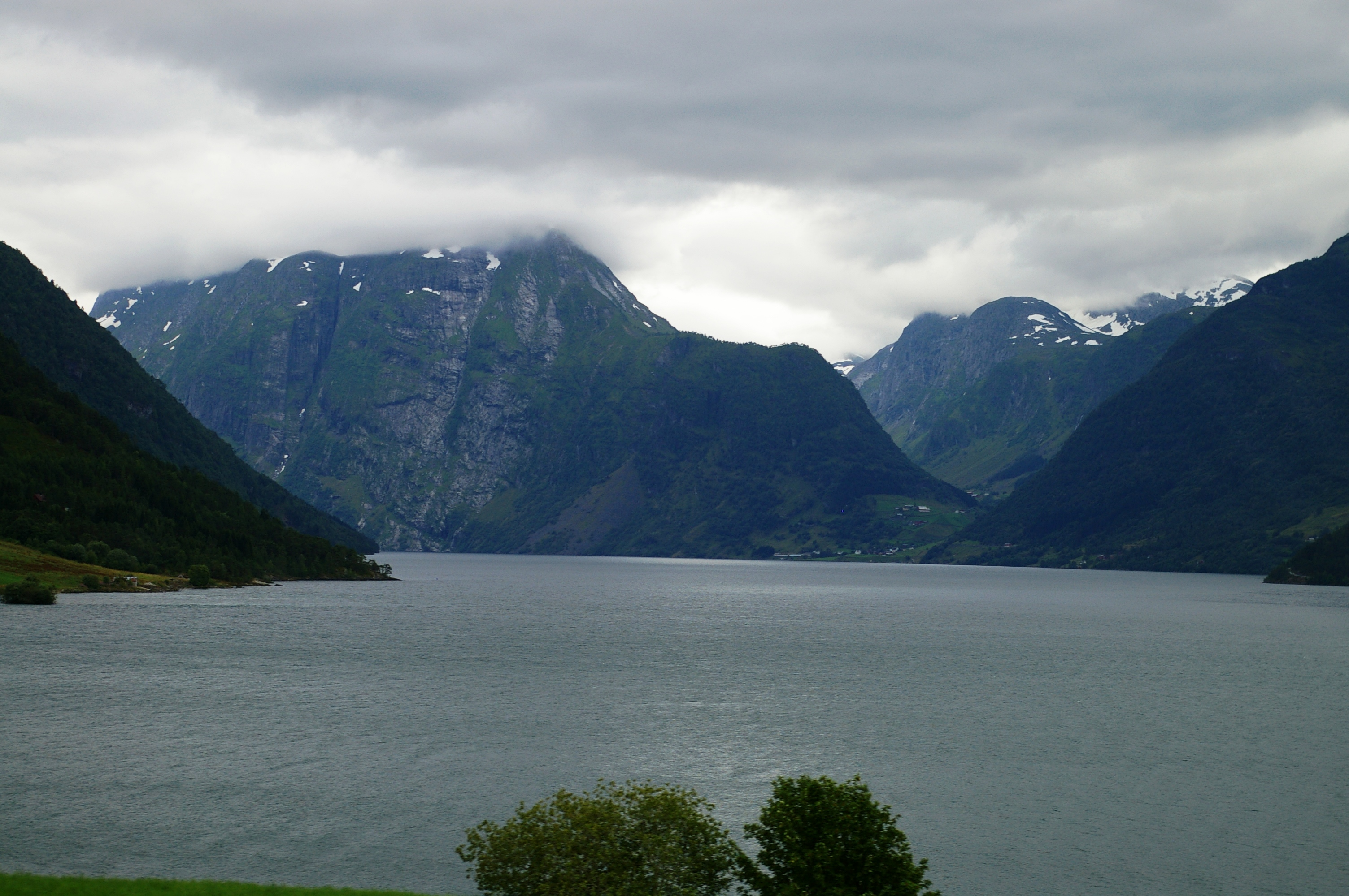 Breimsvatnet near Byrkjelo in Sogn og Fjordane, Norway